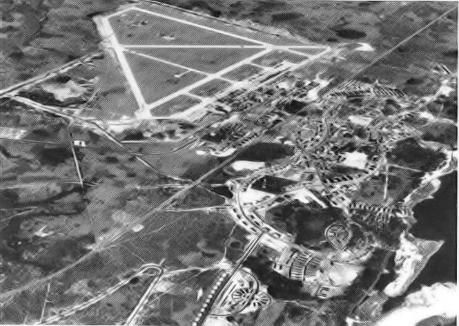 Tyndall Field, about 1944